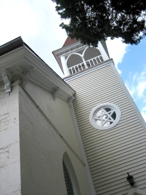 Sacred Heart Church in October of 2007